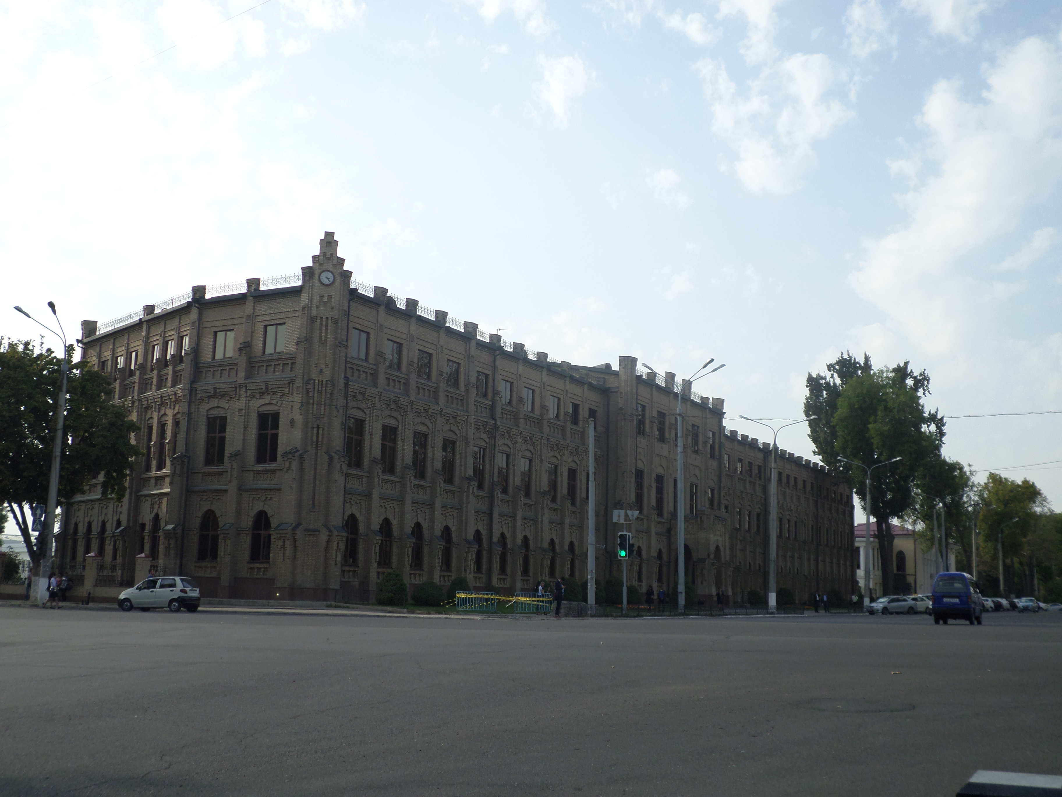 University of Westminster